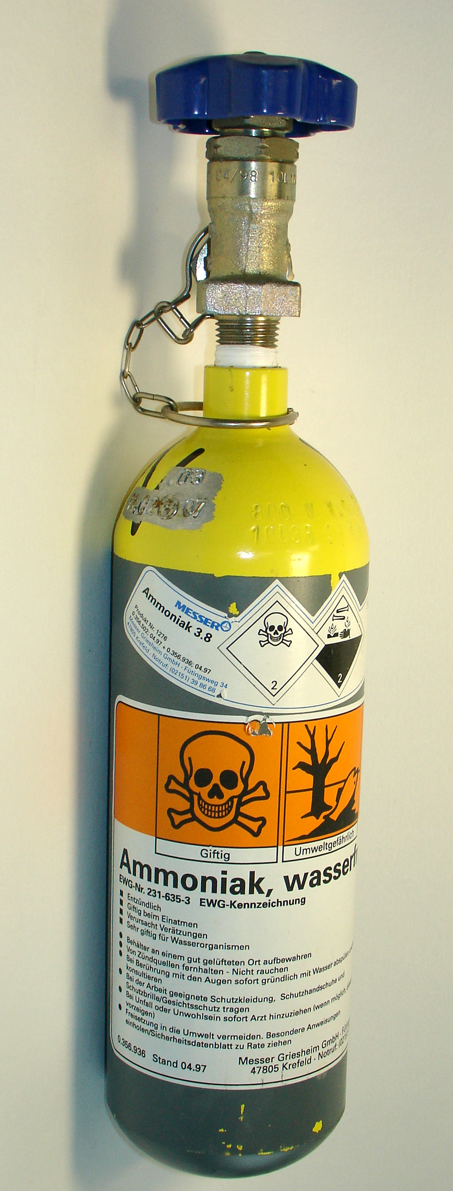 Small gas cylinder with pure ammonia